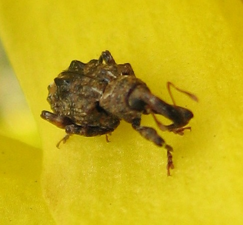 Plum curculio, Conotrachelus nenuphar. Willow Grove, Montgomery County, Pennsylvania, USA.